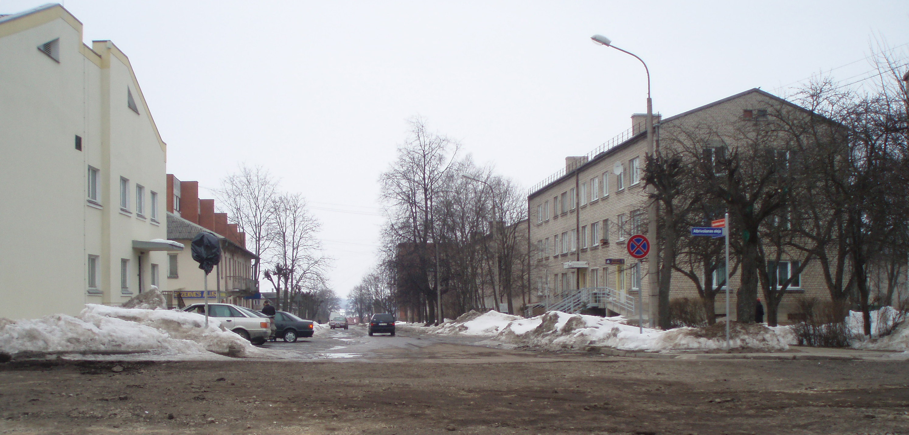 Intersection of Skolas Street and Atbrīvošanas Avenue in Rēzekne.